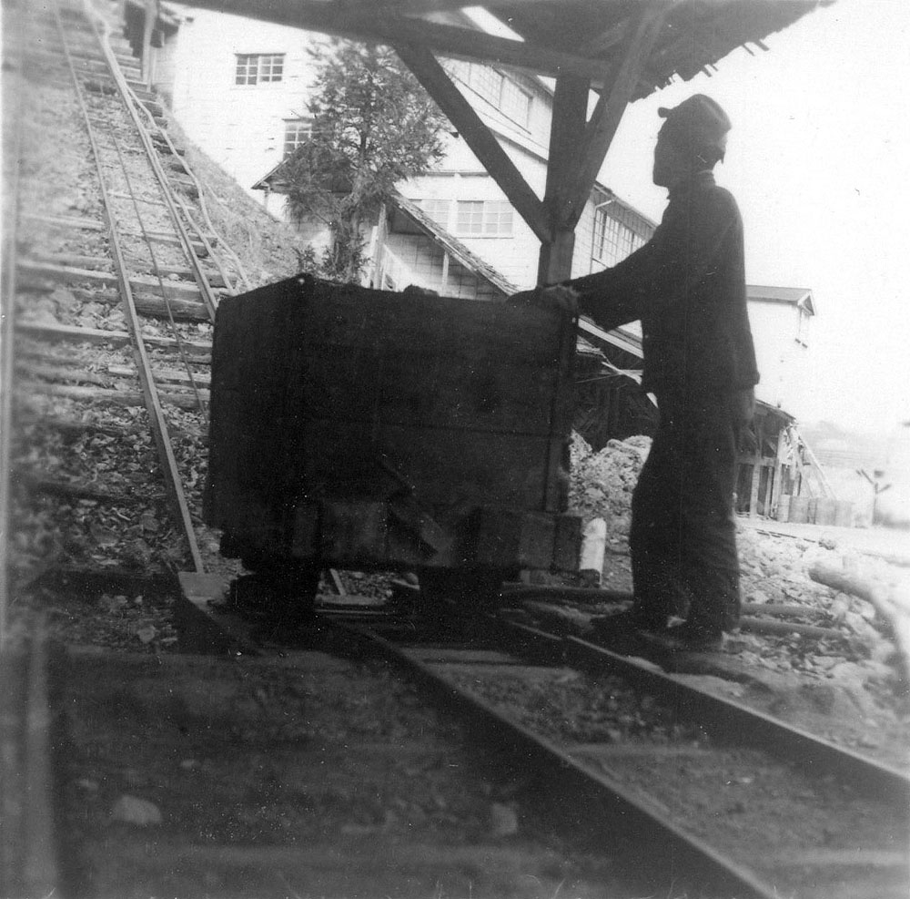 Ohito Mine in Izu, Shizuoka Prefecture, Japan.